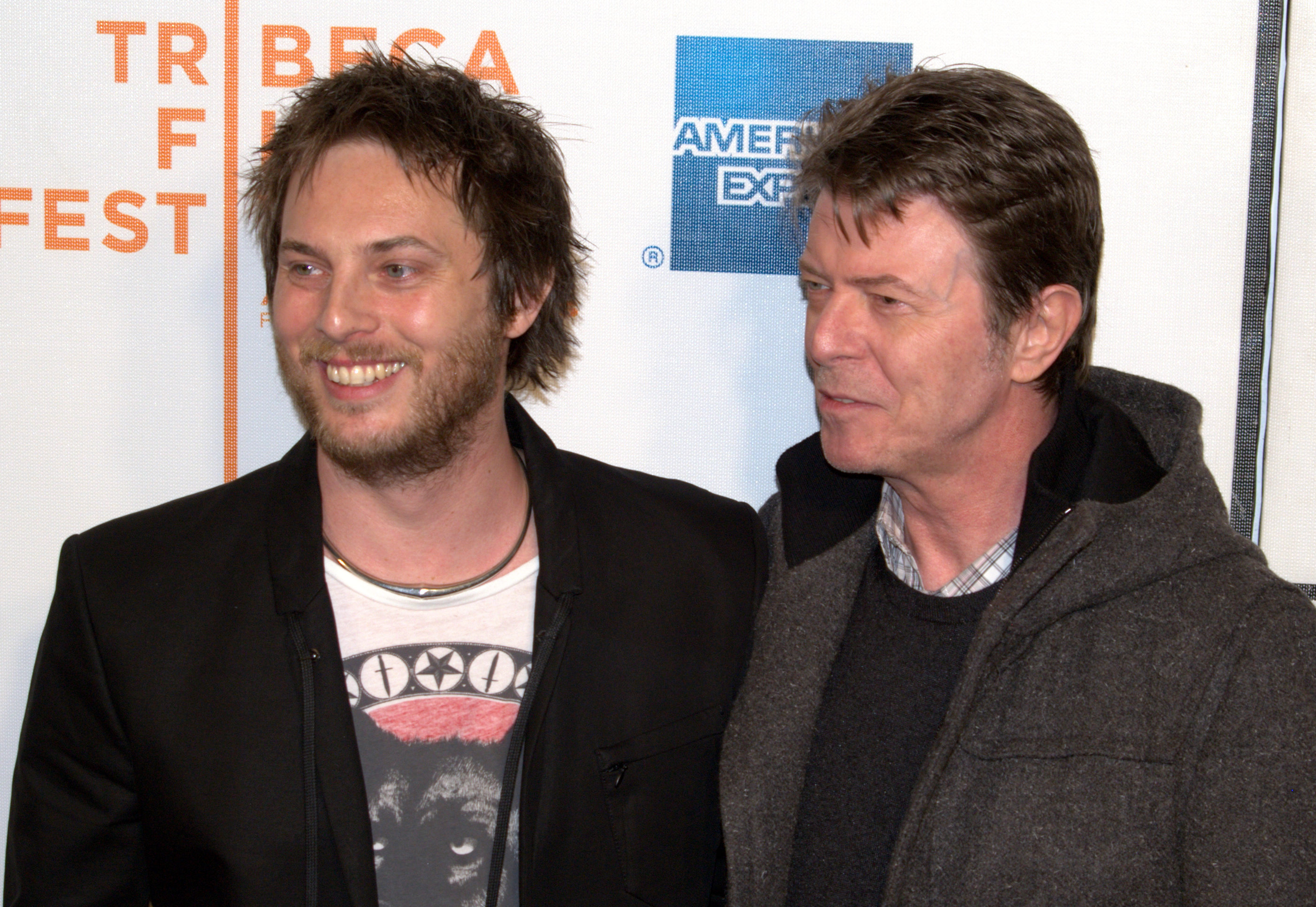 Duncan Jones with his father David Bowie at the 2009 Tribeca Film Festival for the exhibition of Jones's film Moon. Photographer's blog post about this event.